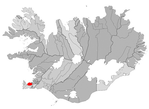 Based on Municipalities of Iceland.png.